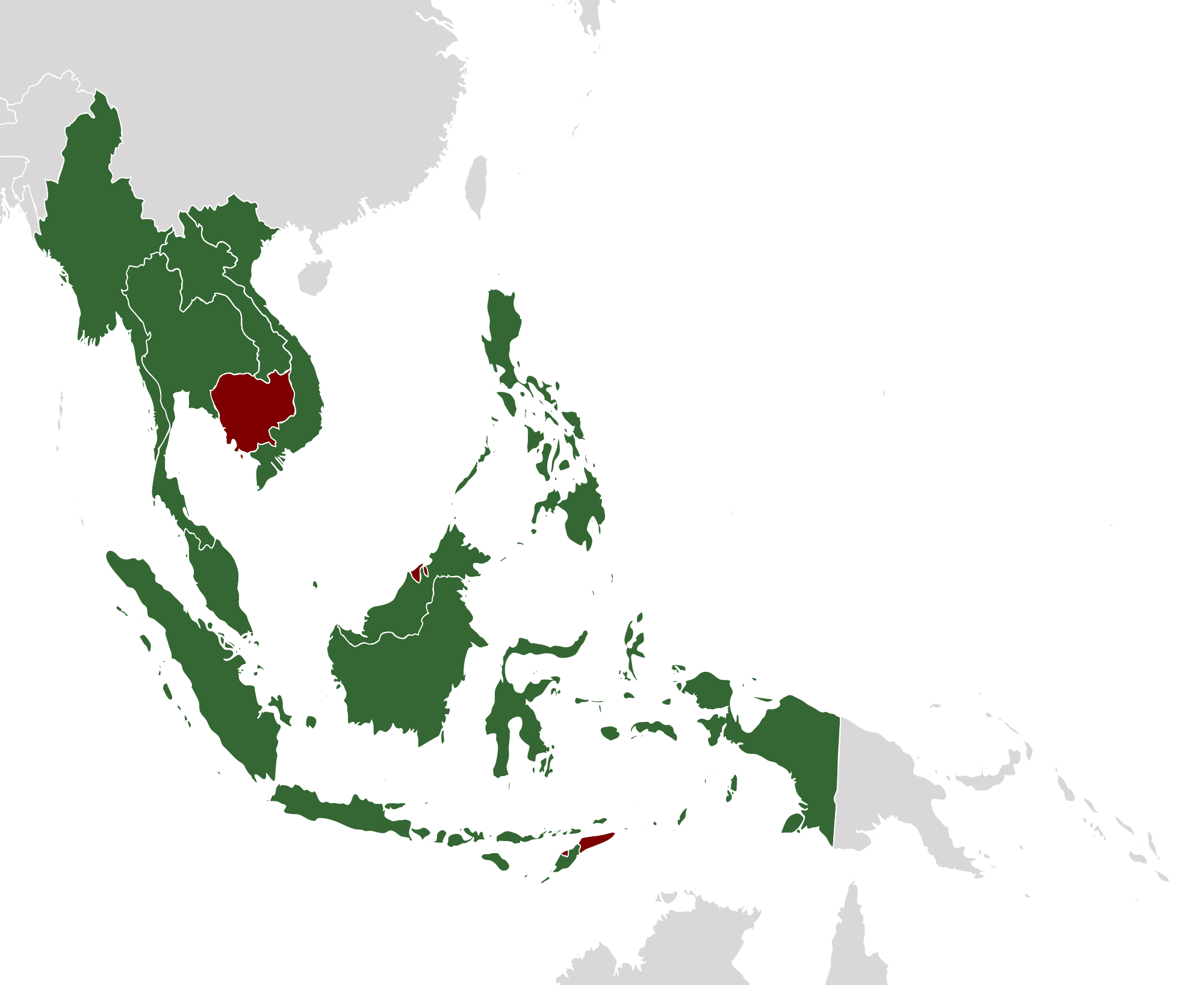 Legend: Qualify Did Not Qualify